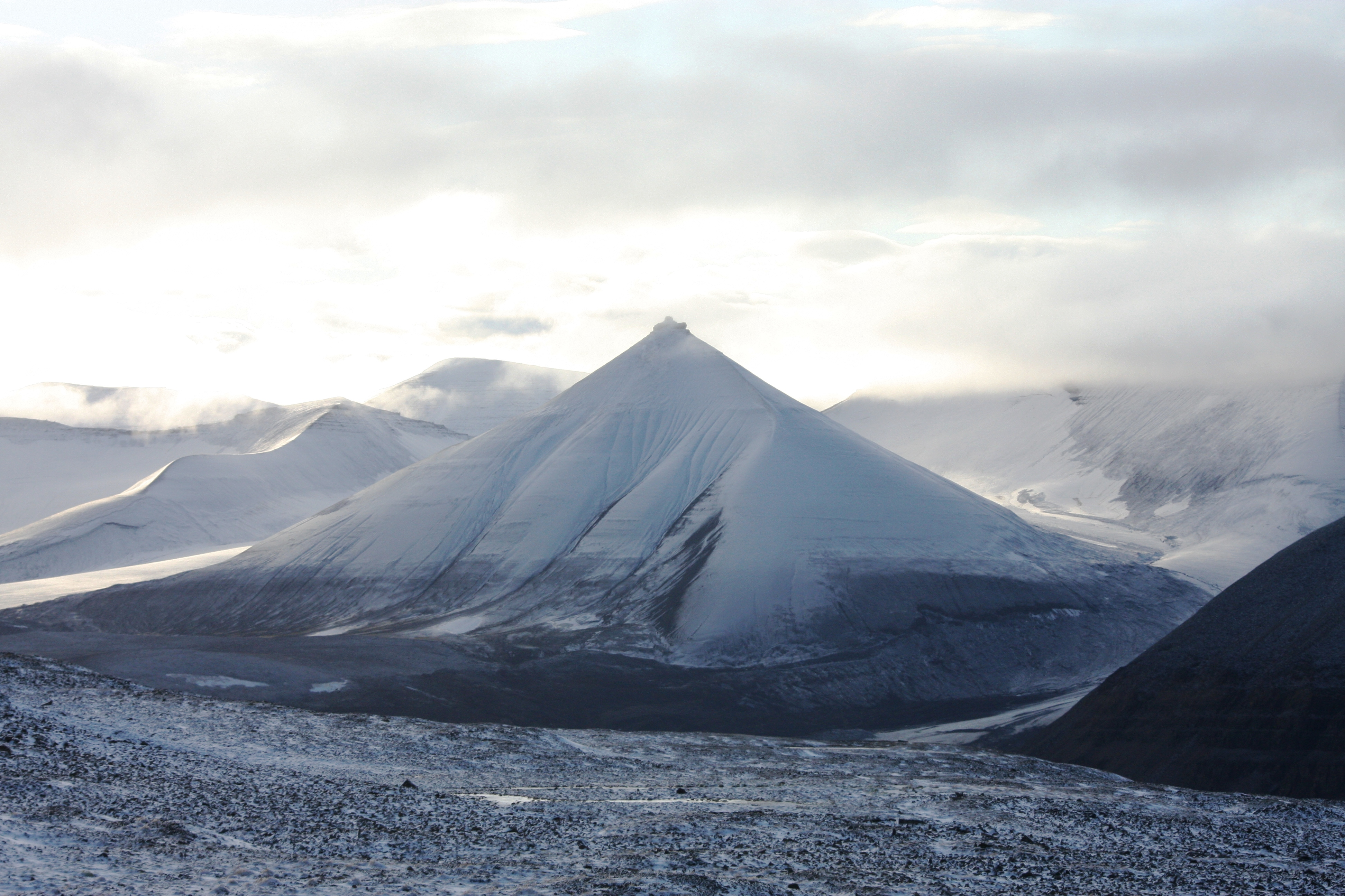 Mt Soleietoppen in Bolterdalen, south of Adventdalen valley, Spitsbergen